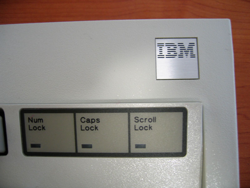 The first generation aluminium badge on an IBM Model M Keyboard, designation 1390131. This keyboard was minted in 1986.